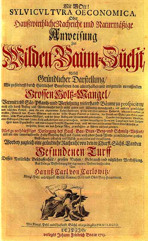 Cover of Sylvicultura oeconomica by Hans Carl von Carlowitz